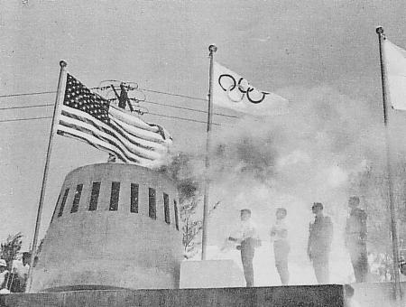 1964 Summer Olympic Flame in Naha